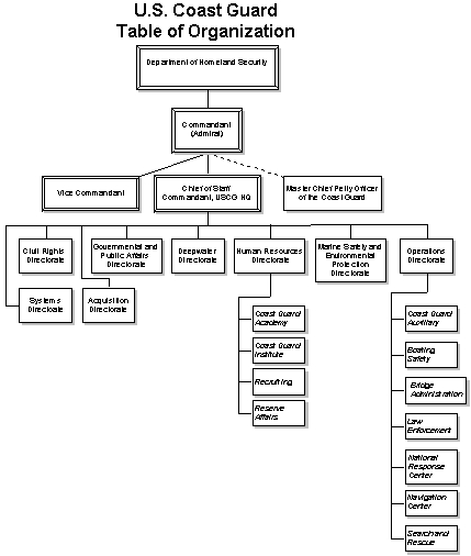 Table of Organization, USCG